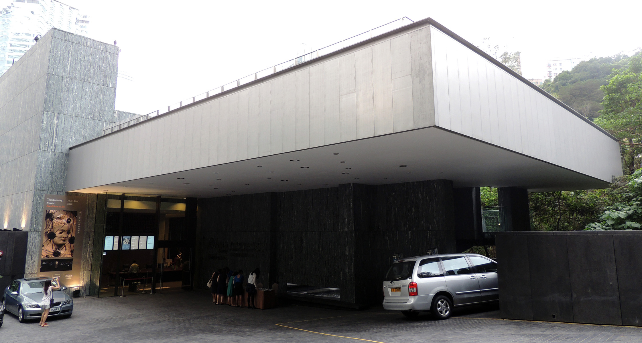 The Pavilion Asia Society Hong Kong Center